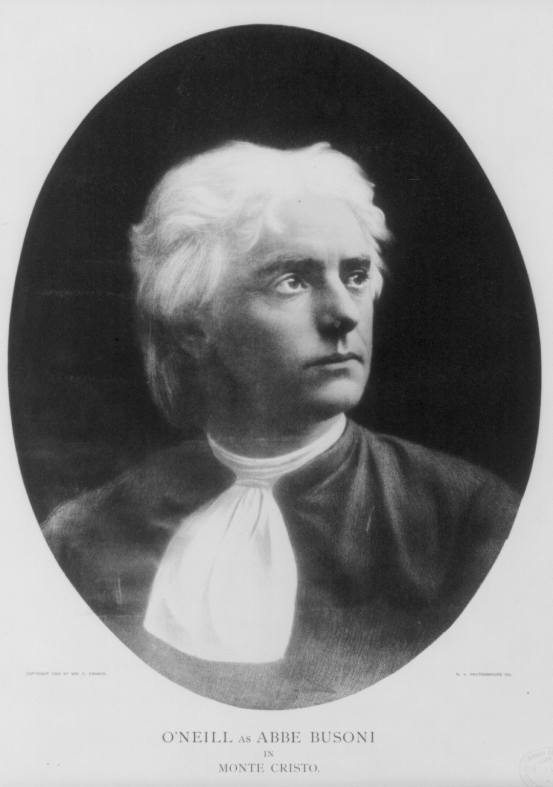 James O'Neill, 1849-1920, bust portrait, as Abbé Busoni in Monte Cristo, facing right. Actor